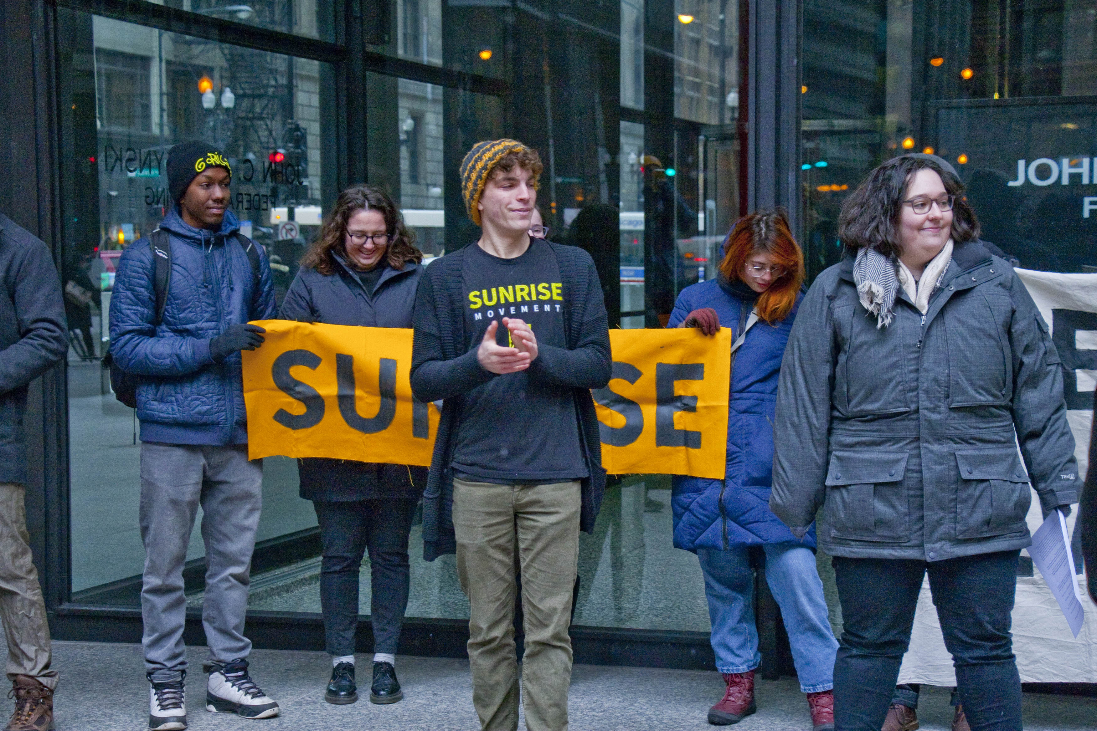 Chicago Sunrise Movement rallies for a Green New Deal, in Chicago (Illinois), 27 February 2019.